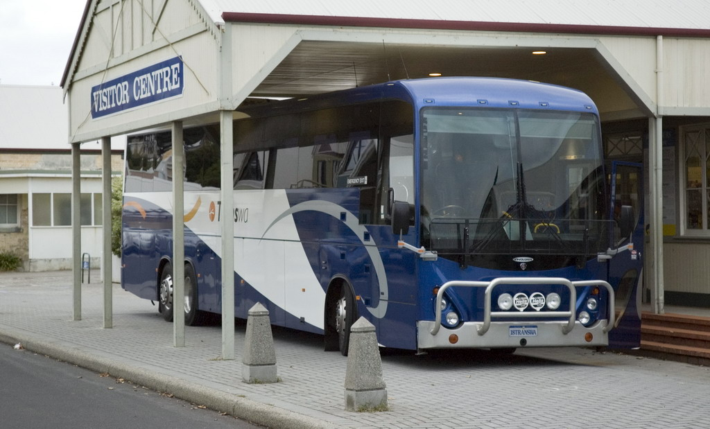 Transwa Volgren "C56FTL" bodied Scania K124EB coach at Albany railway station, Western Australia.